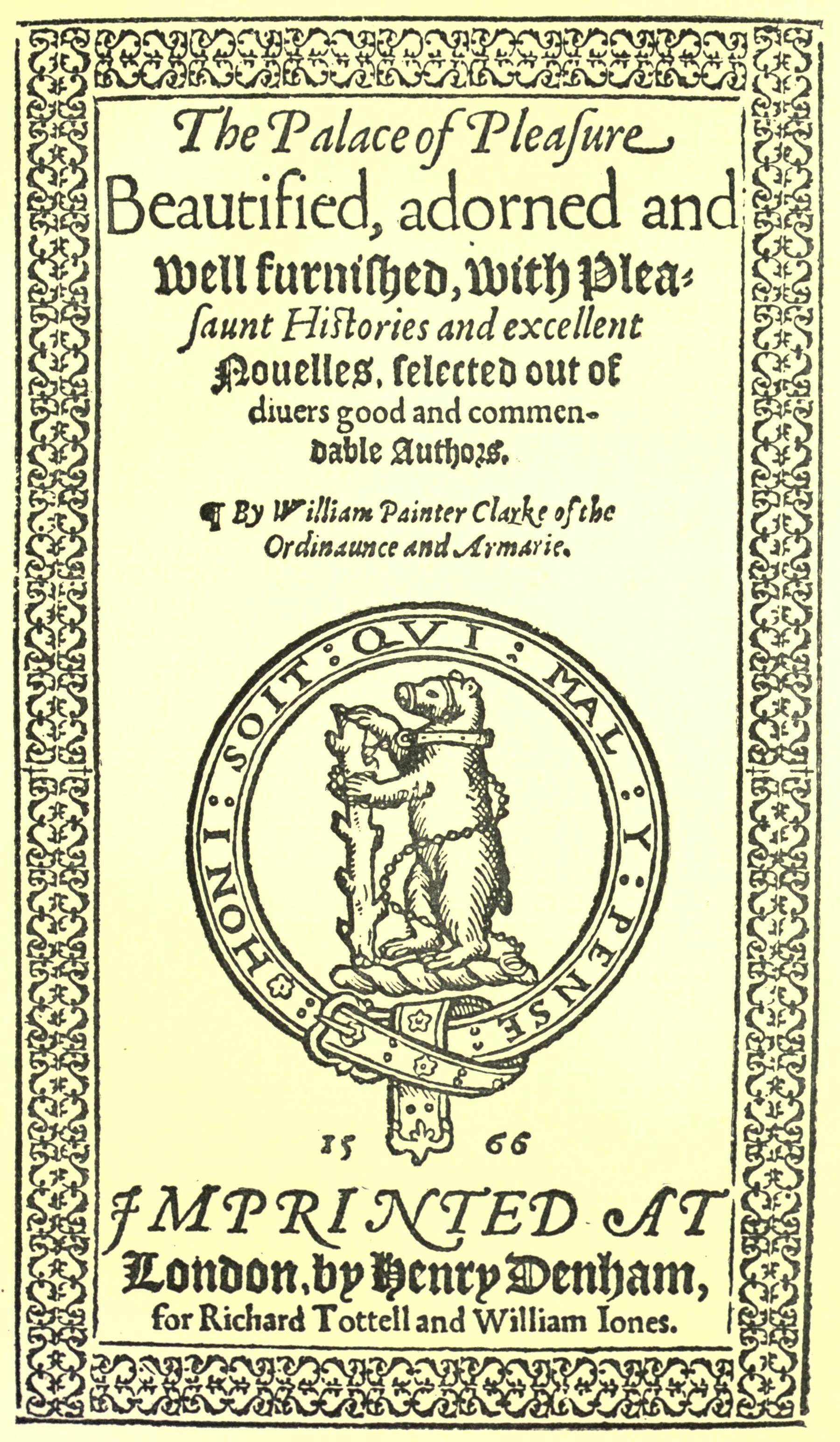 Title page of William Painter: The palace of pleasure, London 1566, reprint 1890